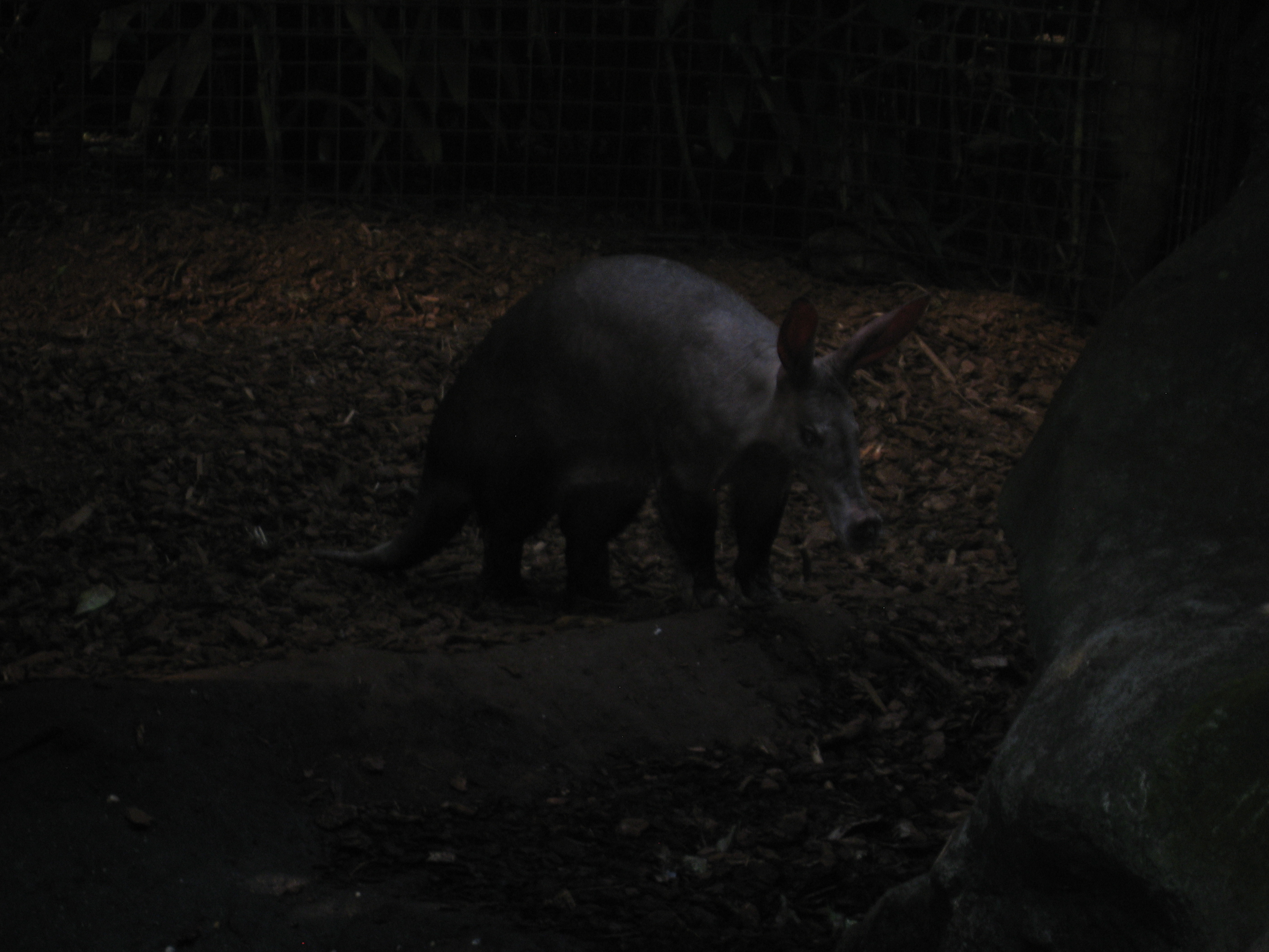 Aardvark in Burgers' Bush, part of Burgers' Zoo